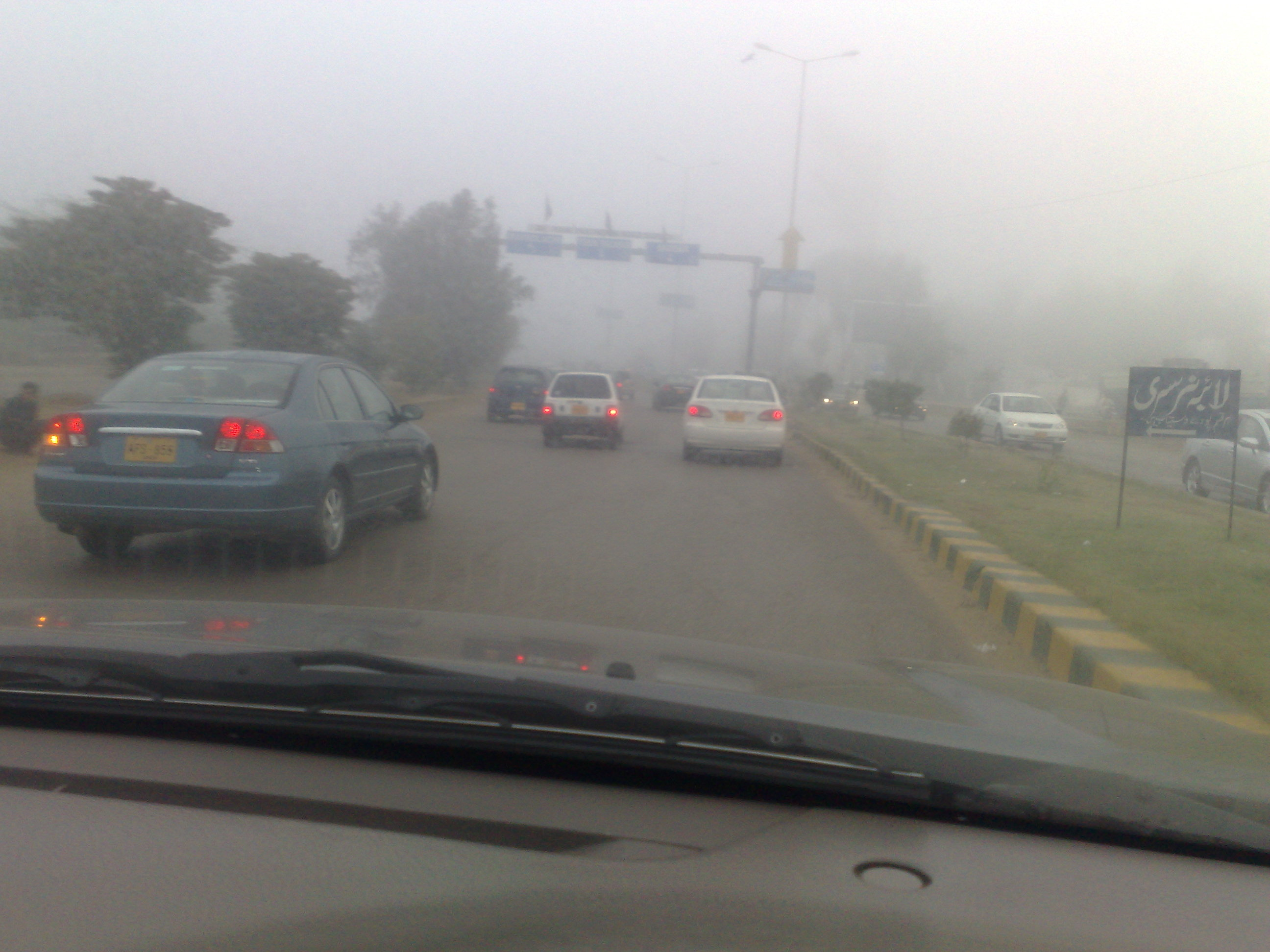 A road in Karachi under Foggy conditions